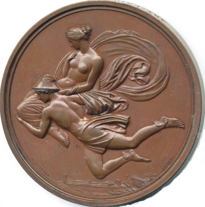 H. Weigall's bronze medal for the Art Union of London, 1854, based on a relief by John Flaxman